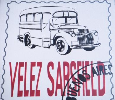 Official emblem of the Buenos Aires' barrio of Vélez Sarsfield.